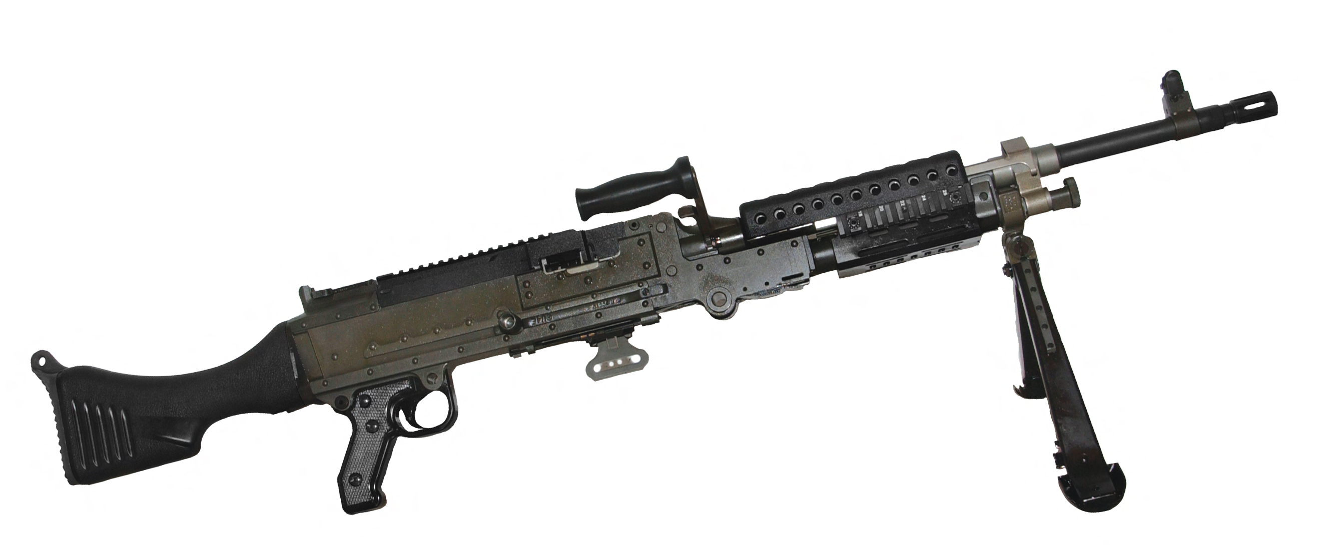 M240B Medium Machine Gun Primary function: Anti-personnel, aerial defense and light materiel targets. Length: 4 ft. 1 in. Weight: 27.1 lbs. Caliber: 7.62 mm NATO. Maximum ef- fective range: Area target: 800 meters; point target: 1,800 meters with tripod. Cyclic rate of fire: 650-950 rounds per minute.